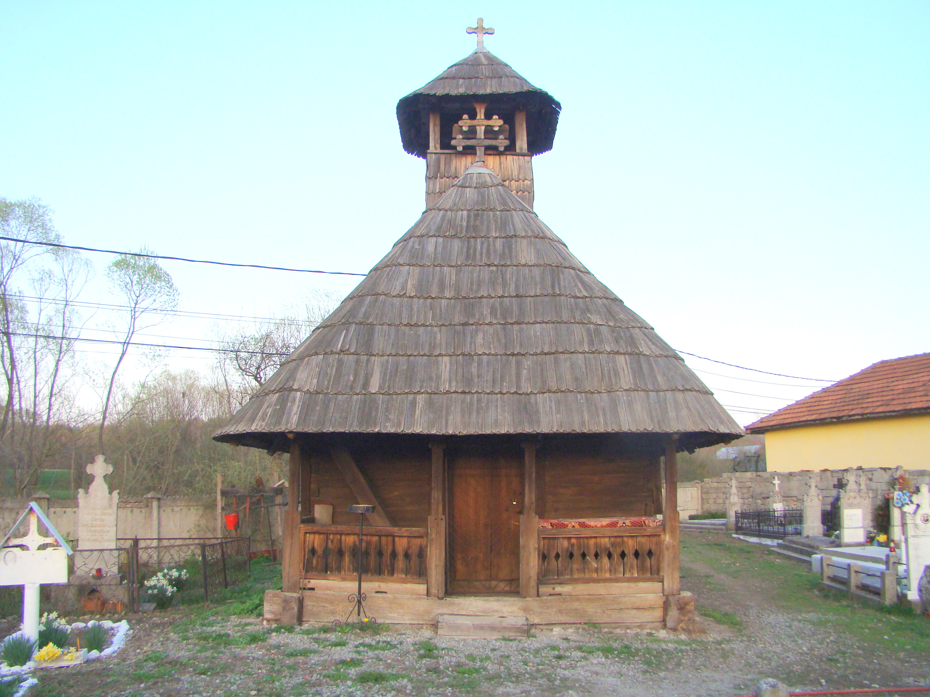 Wooden church of Saint John the Baptist in Stolojani, Gorj county, Romania